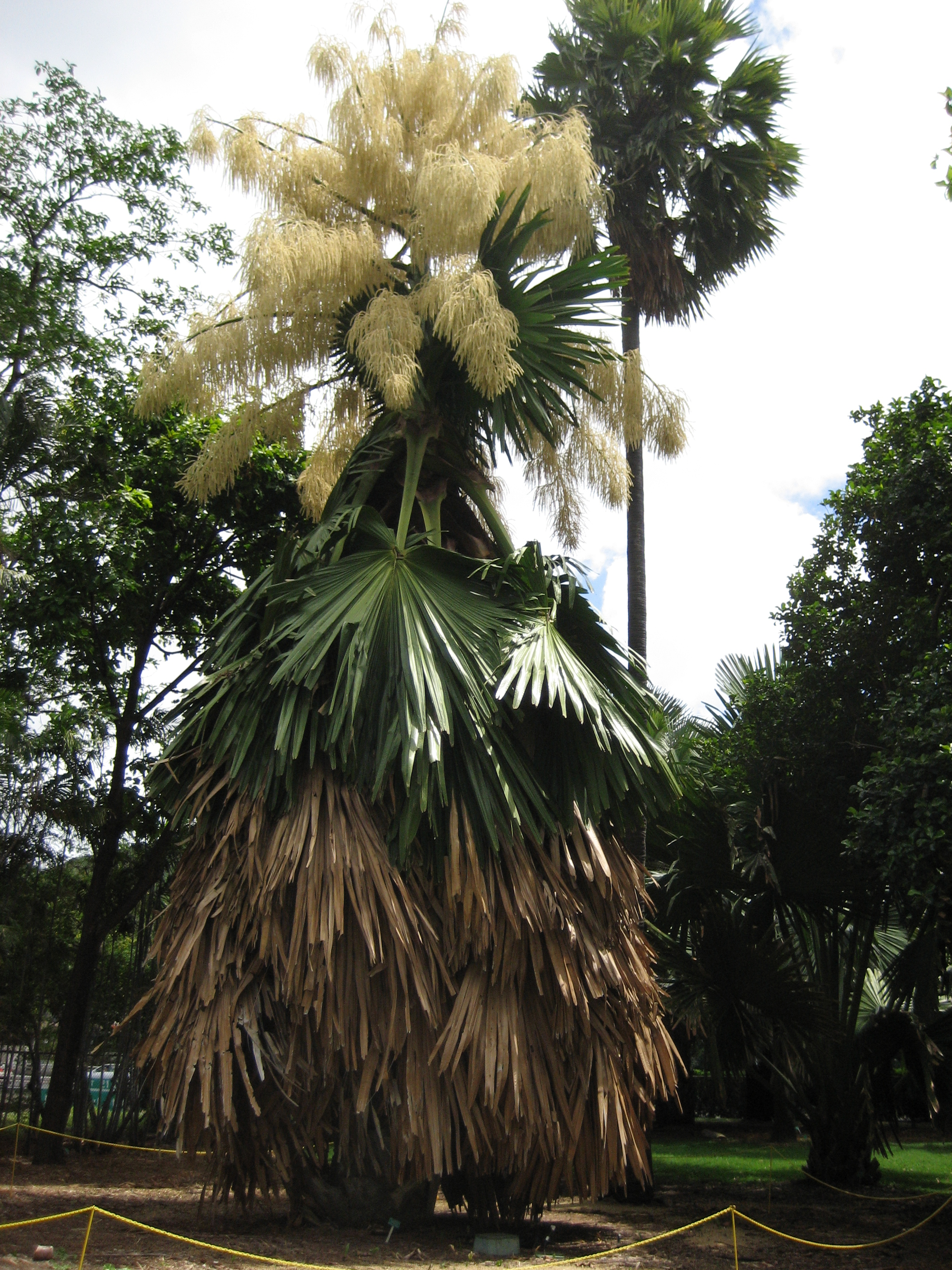 Flowering Talipot Palm at Foster Botanical Gardens, Honolulu, Hawaii